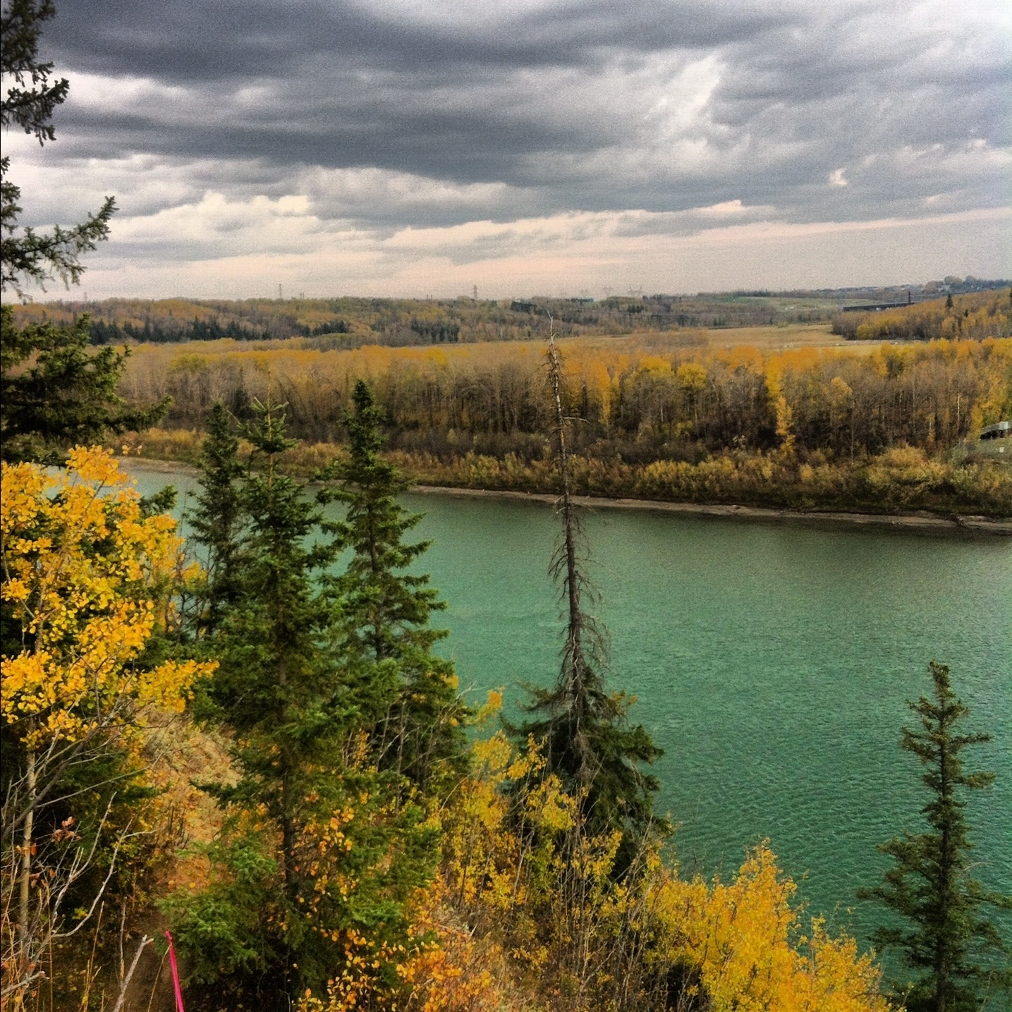 River valley in Sept.